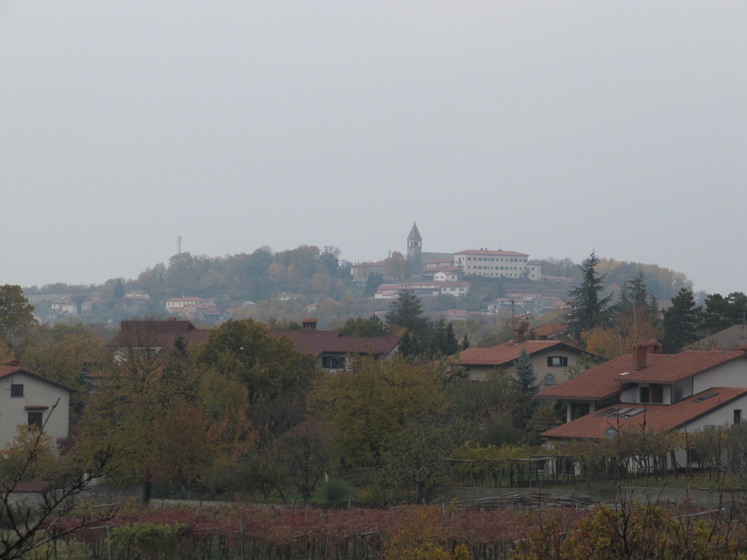 Tomaj, village in Slovenia